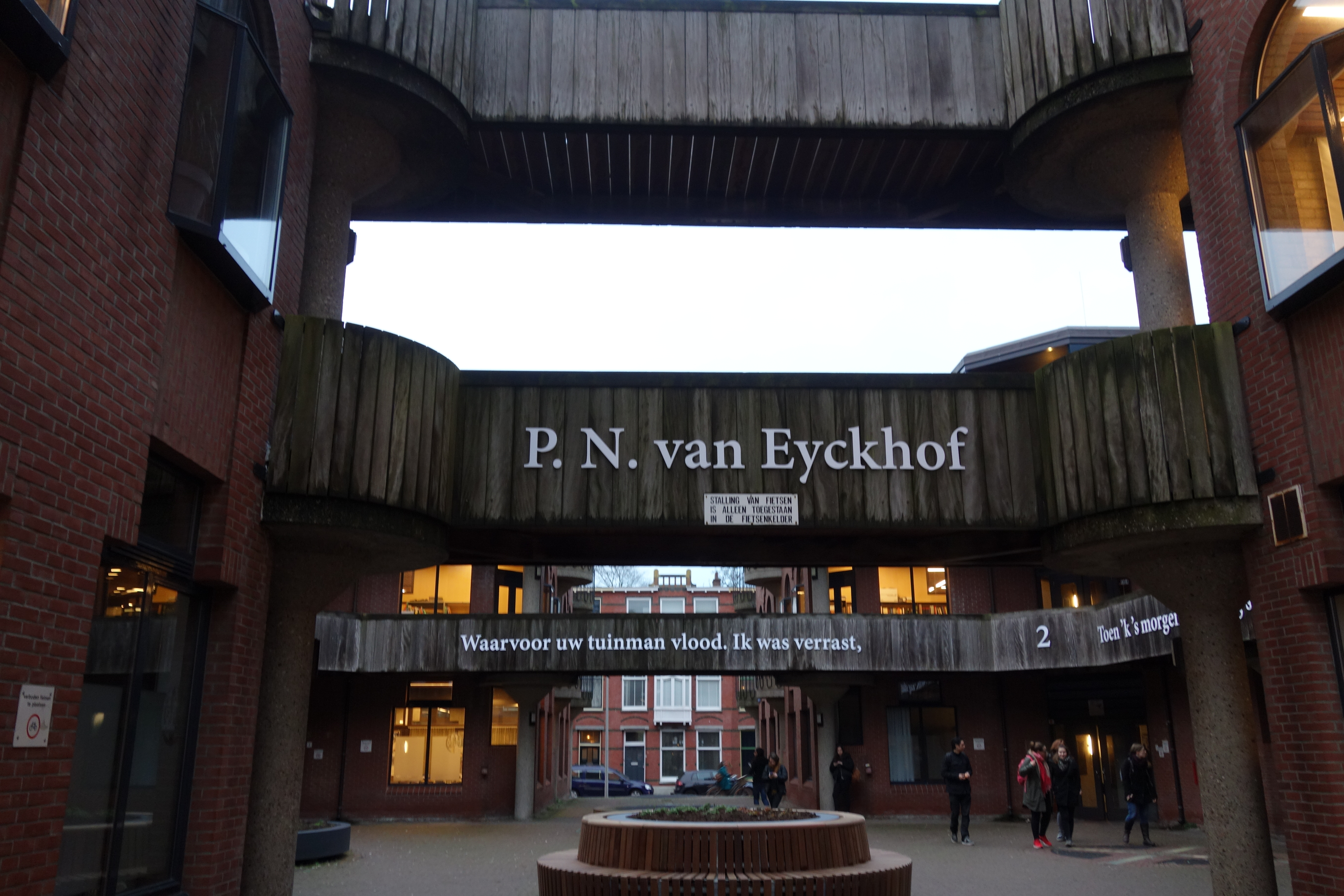 Faculty of Humanities, Leiden University. P.N. van Ecykhof, with lines from the poem De tuinman en de dood by P.N. van Eyck